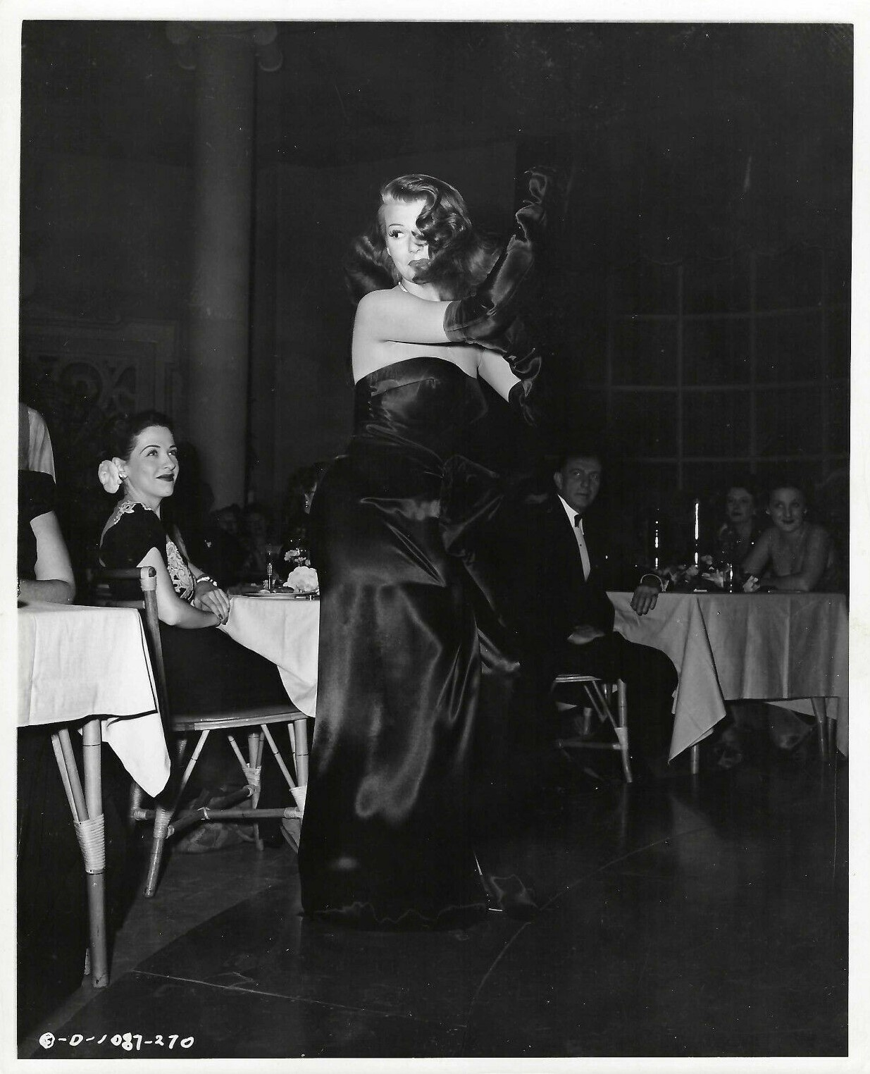 Rita Hayworth as Gilda, 1946